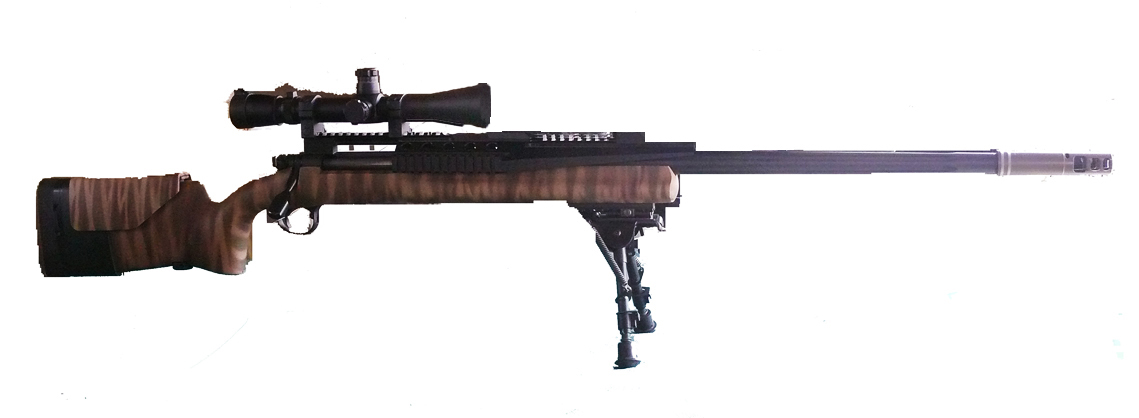 H-S Precision Pro Series 2000 HTR sniper rifle in IDF service (edited: big night vision device was removed, retain only telescopic sight)